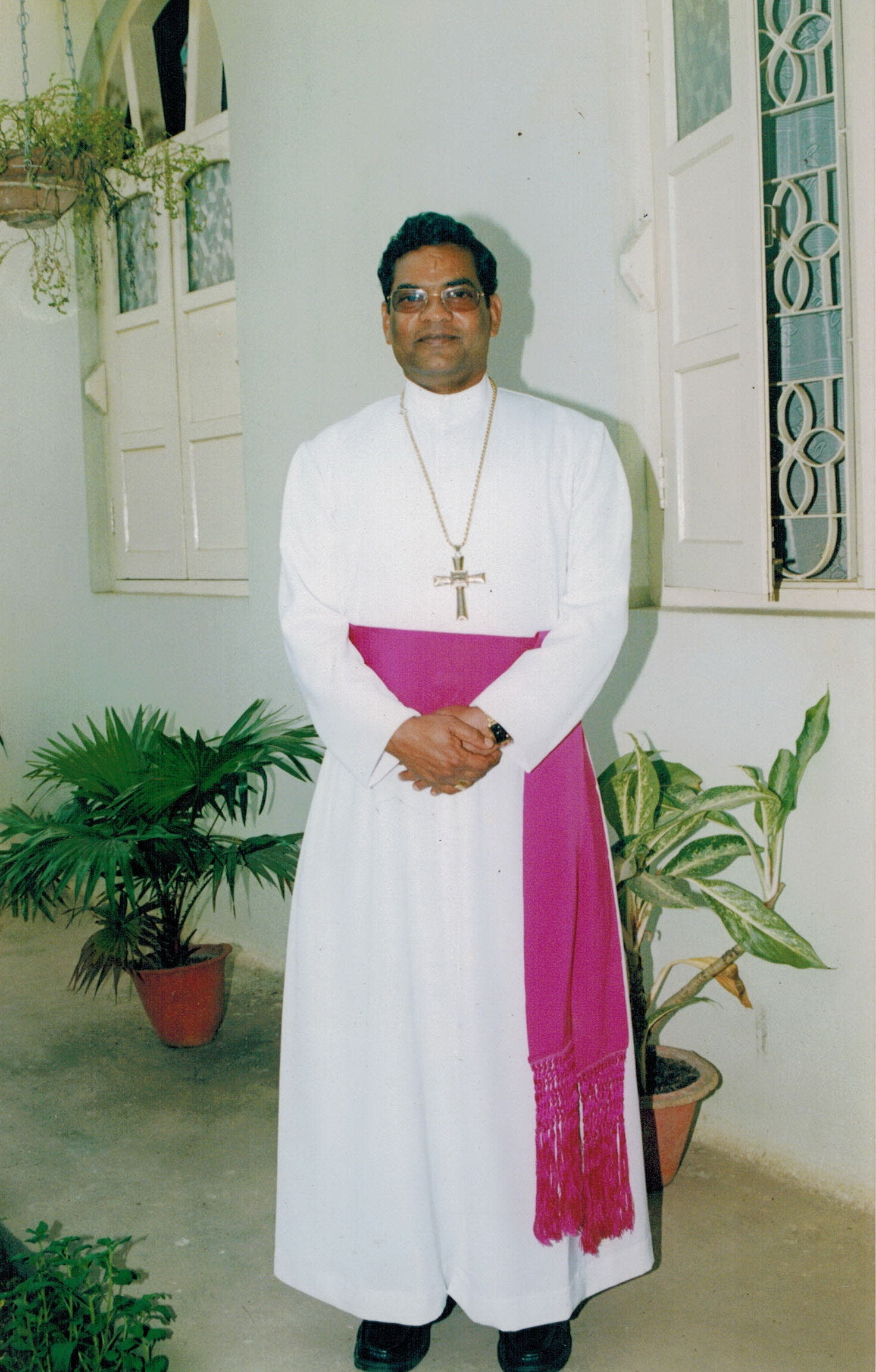 Bishop Kurian Valiakandathil of Diocese of Bhagalpur